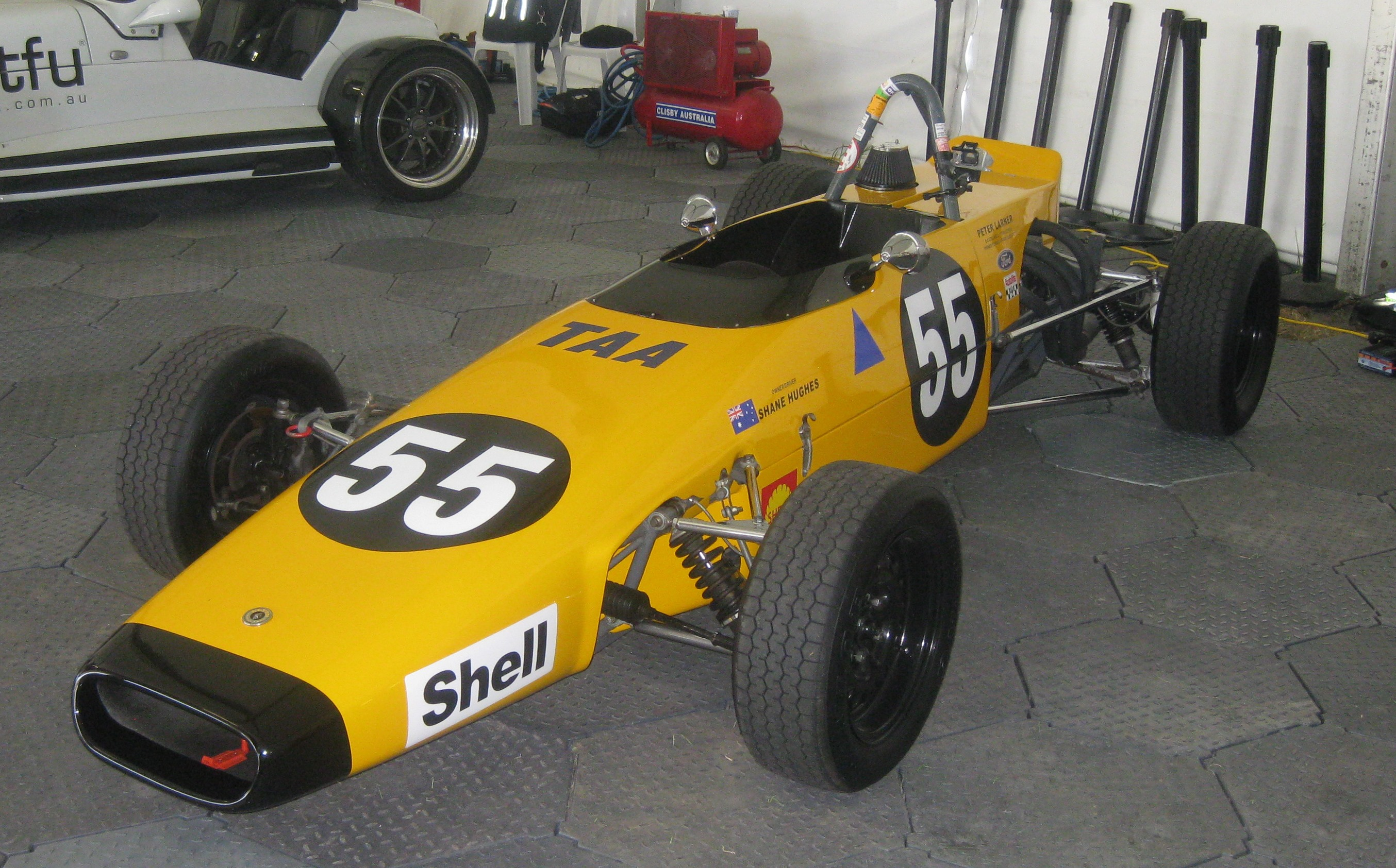 1972 Elfin 600FF